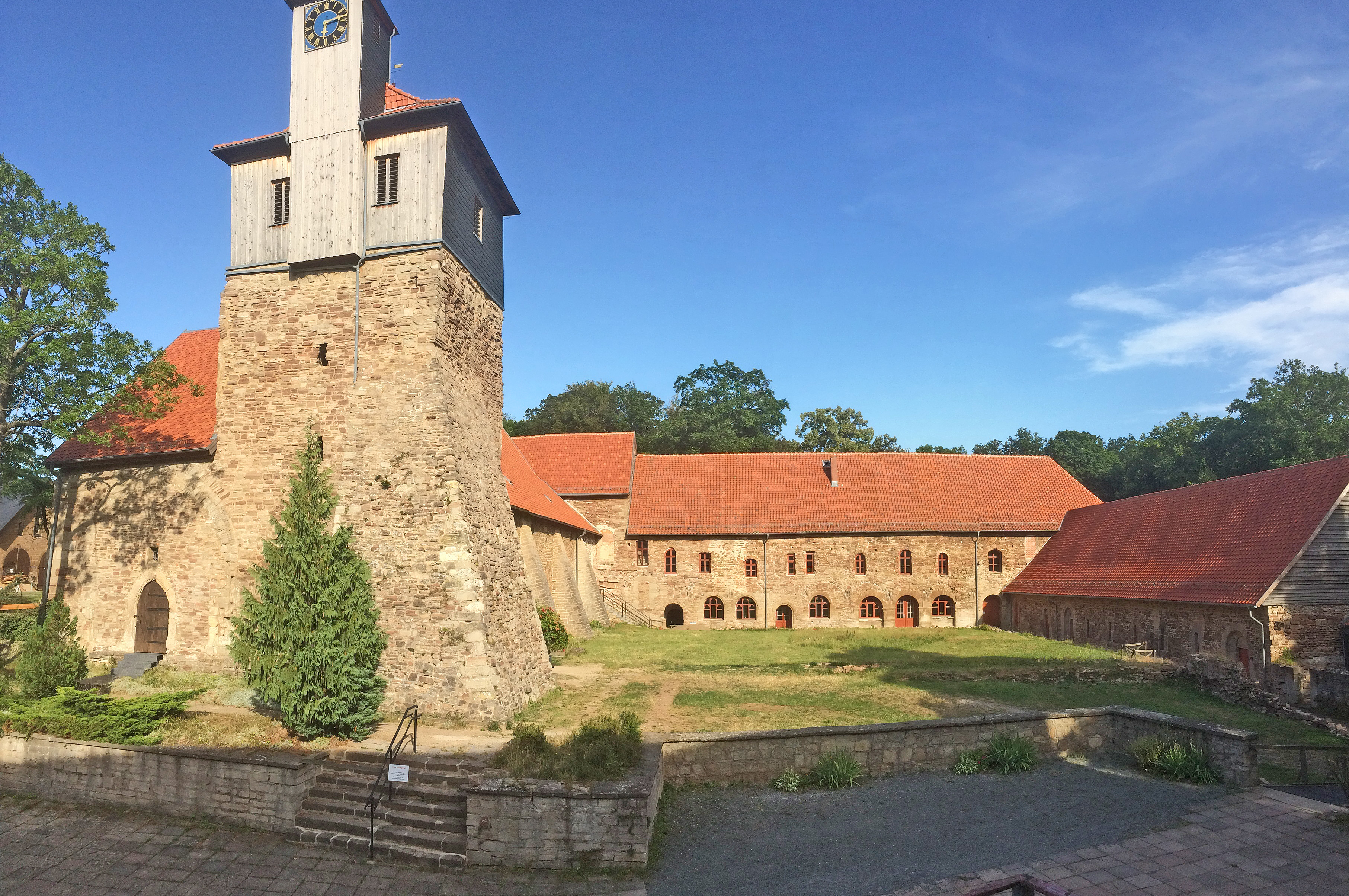 The Ilsenburg Abbey, seen from Westnorthwest.